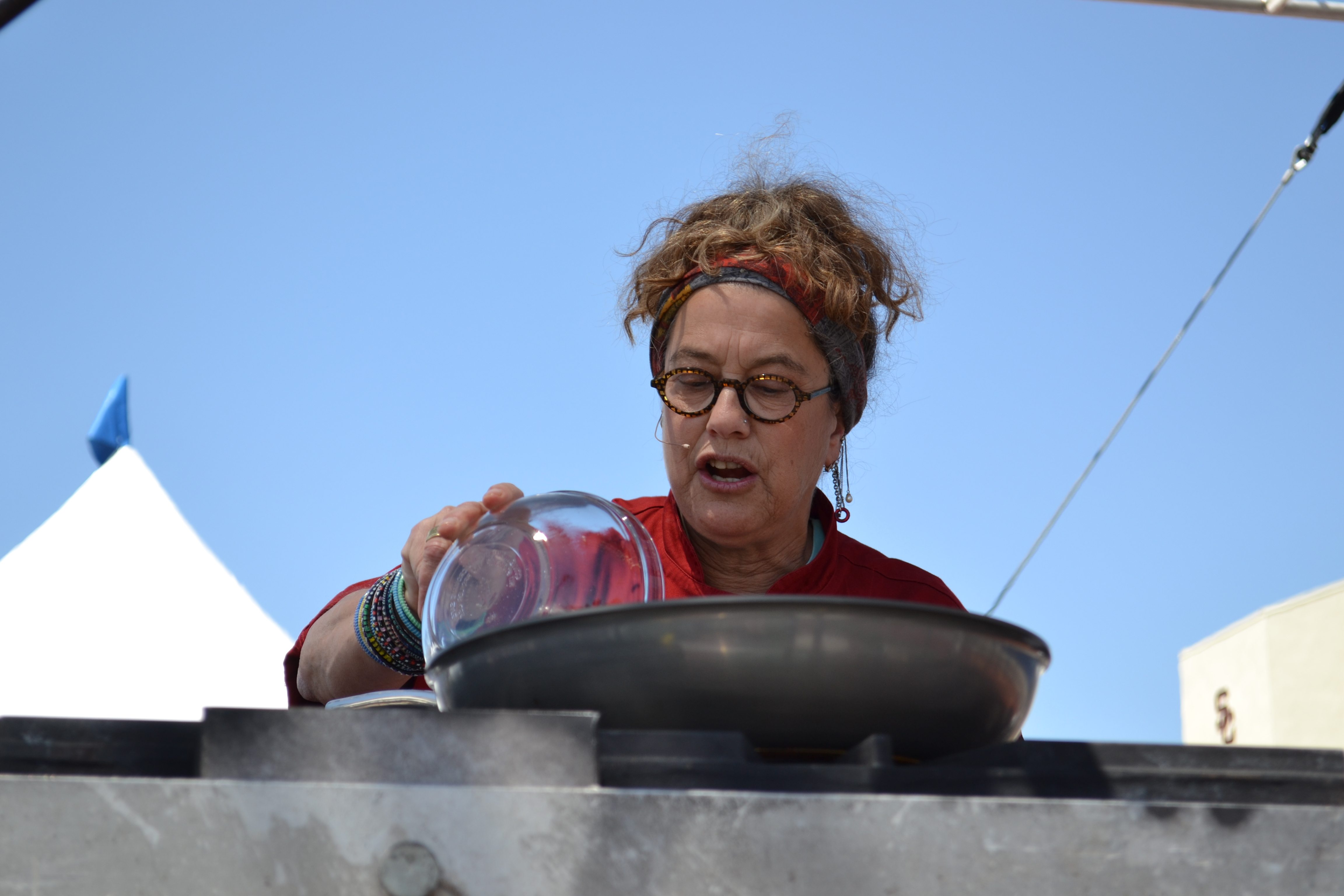 Susan Feniger at 2013 LA Times Festival of Books (Kristin Yinger/Neon Tommy)